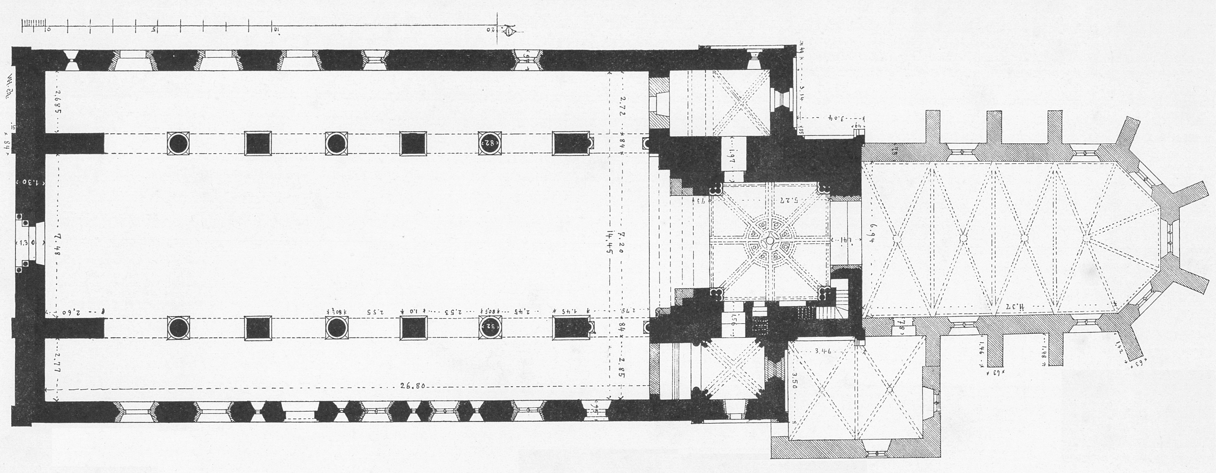 The Johanneskirche (St John's church) in Weinsberg. Ground plan, rotated 90 degrees